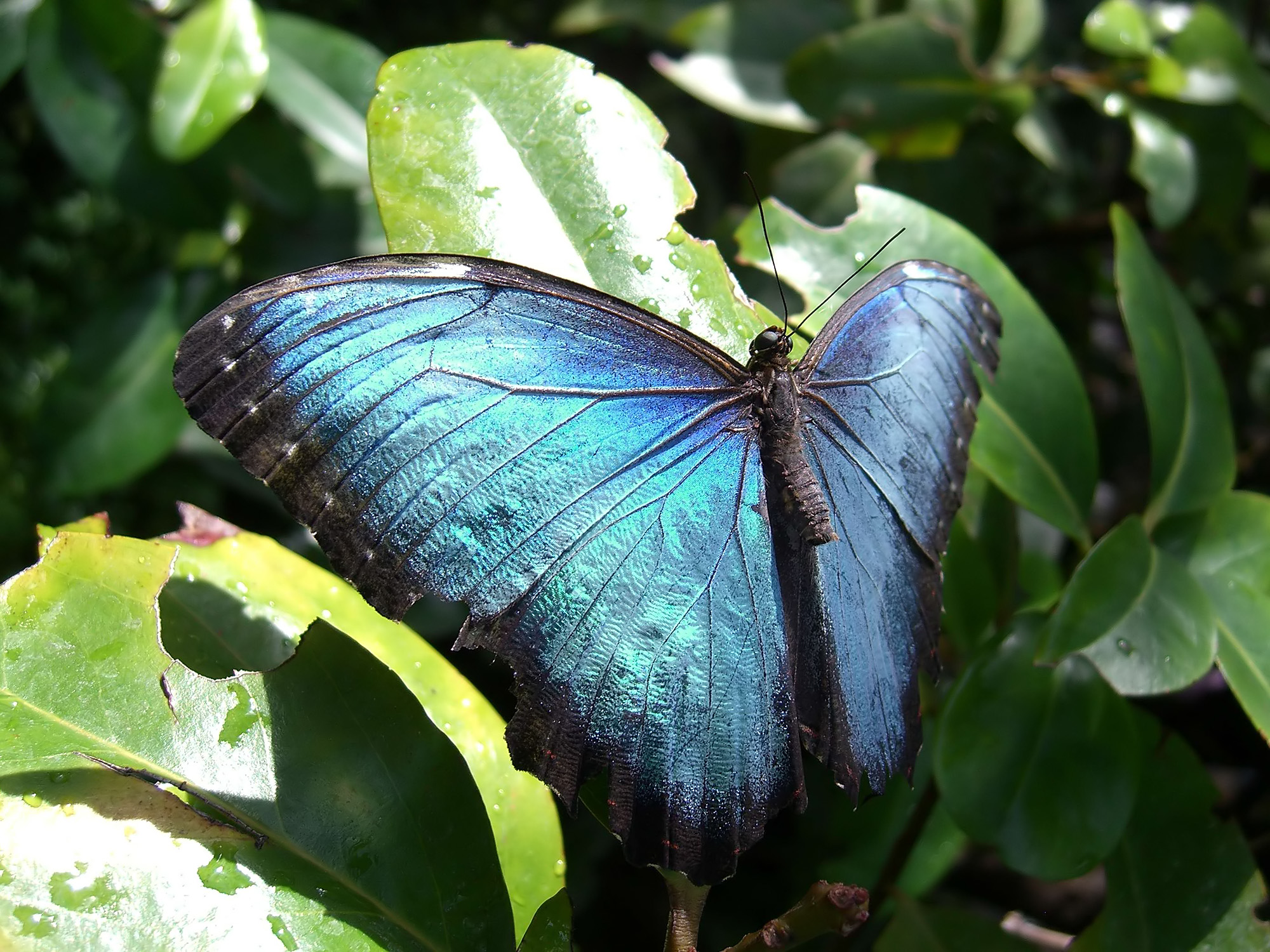 Morpho peleides